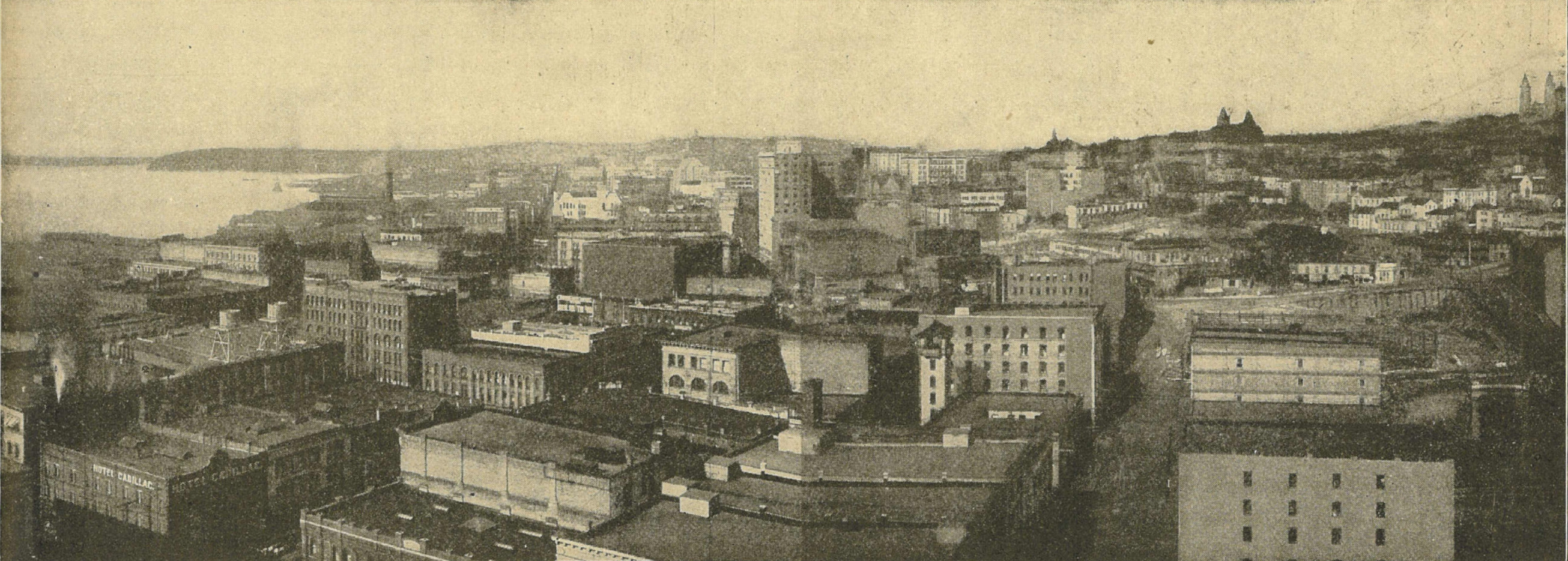 Panoramic photo (actually, two photos side-by-side) of the city of Seattle, Washington, some roughly 1906–1910. Titled "Seattle, Washington, overlooking the wholesale district". The picture can be dated roughly 1906–1910, because the Alaska Building his been erected, but the Smith Tower has not. It would appear to have been taken from the tower of King Street Station. This shows the Pioneer Square neighborhood before Second Avenue Extension came through. Several of the buildings that are front and center in this photo were sacrificed in whole or in part for that project. At the lower left is the Hotel Cadillac (with sign lettered near top), now the site of the Seattle Unit of the Klondike Gold Rush National Historical Park. At upper right is the then-new St. James Cathedral (Roman Catholic). At upper left is Elliott Bay.